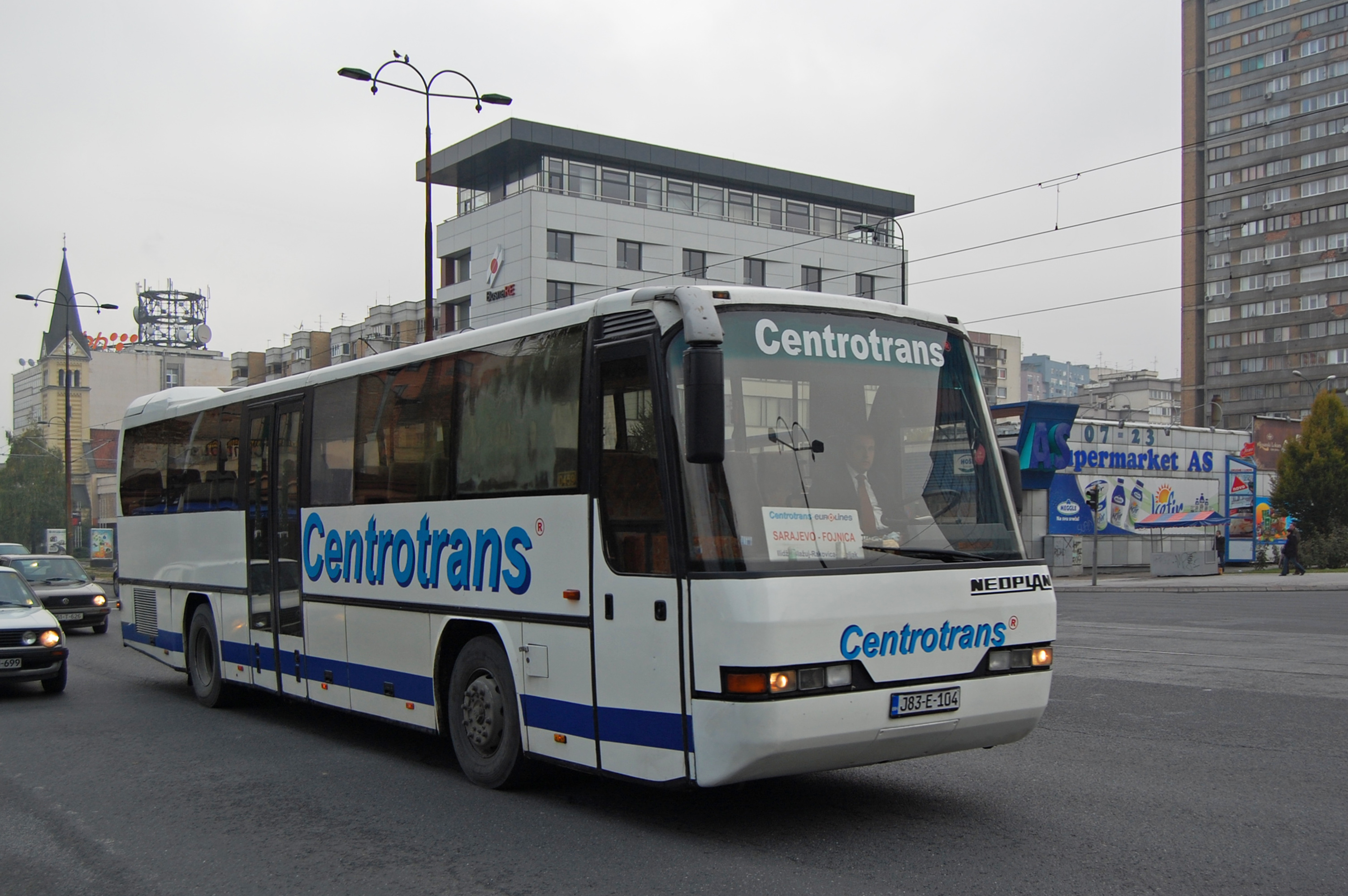 Bus on Centrotrans Line Sarajevo - Fojnica at Socijalno in Sarajevo